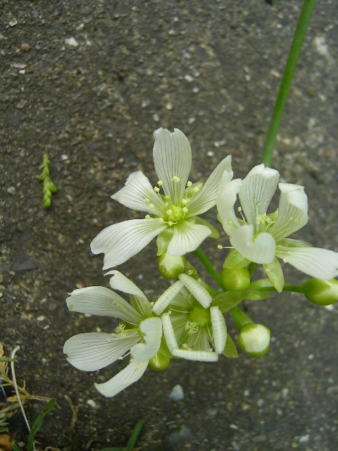 Venus Fly Trap flowers